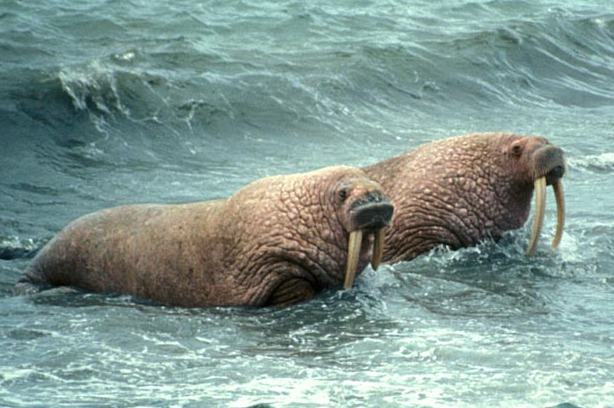 Walrus Pair